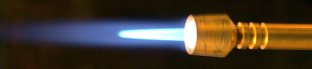 Oxygen Rich Butane Blow Torch Flame photo taken by myself --Rnbc 01:02, 2005 Jan 9 (UTC)